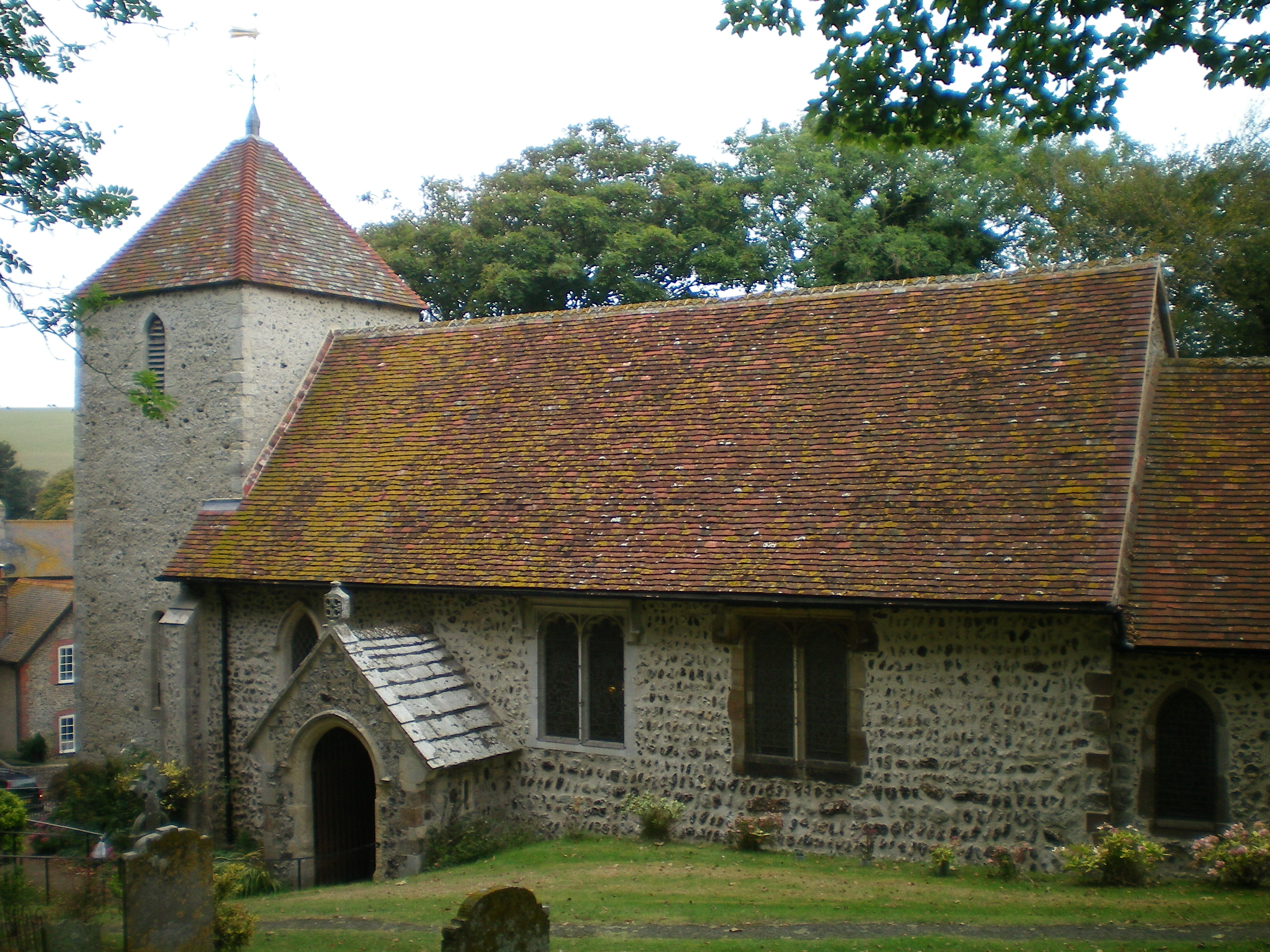 St Lawrence's Church, Telscombe, East Sussex, England.